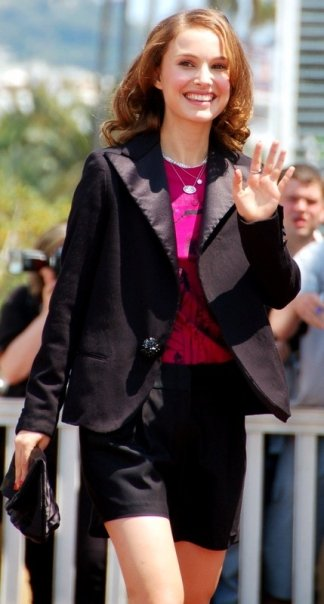 Natalie Portman at the Cannes Film festival